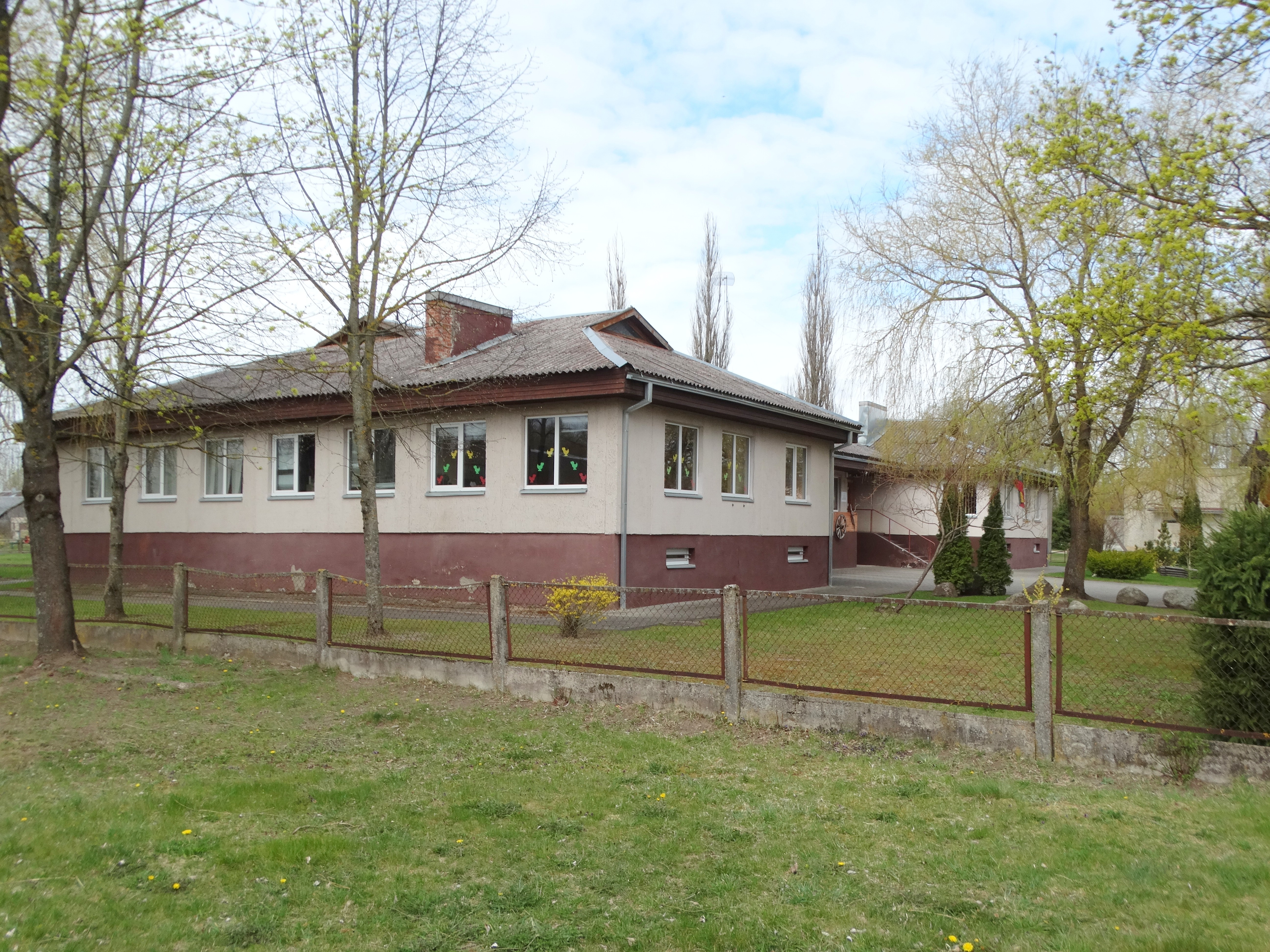 Baltrušaičiai, school, Tauragė district, Lithuania